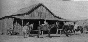 Photograph of the general store at Klondyke, Arizona in 1910.